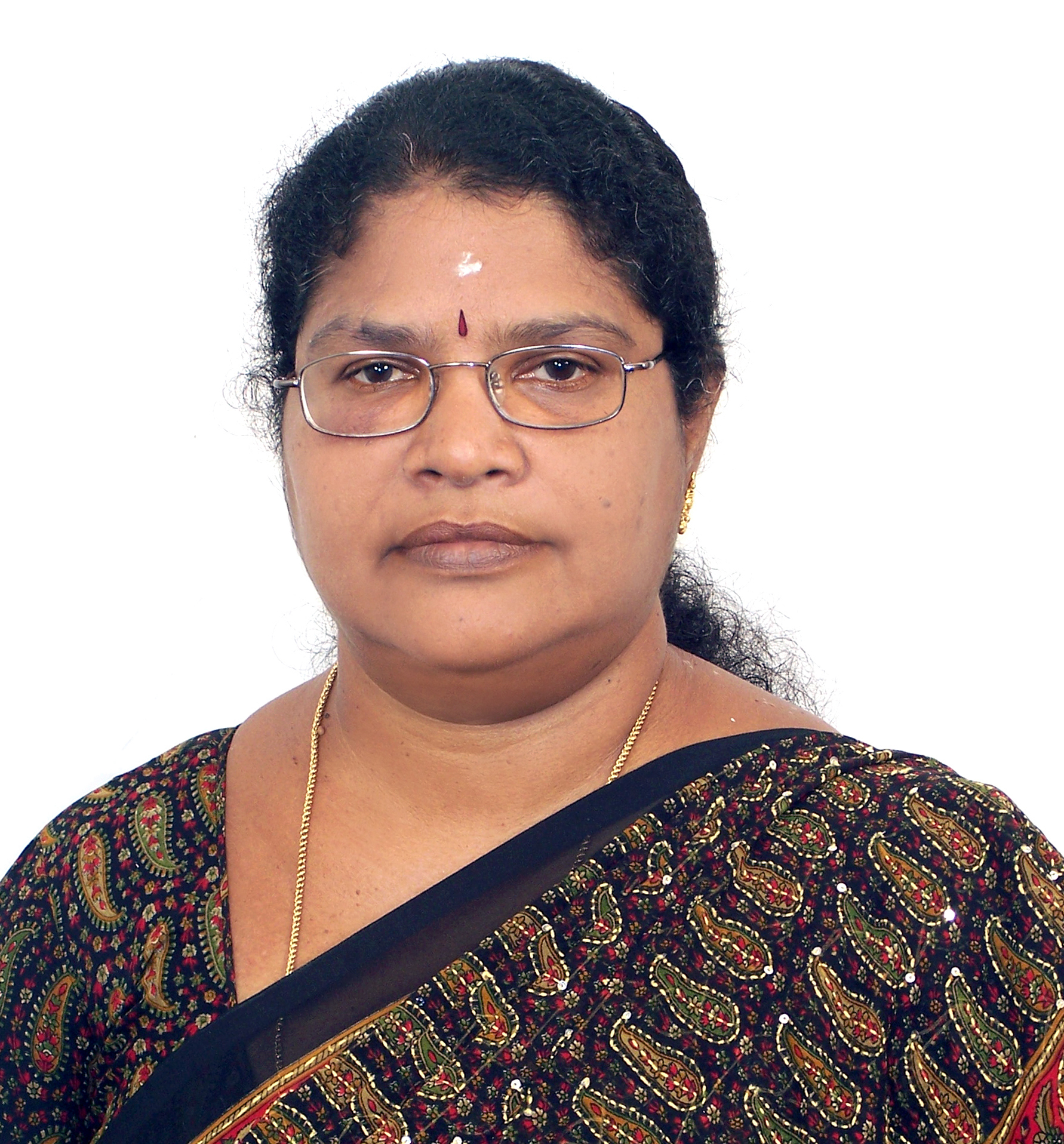 Researcher, and writer